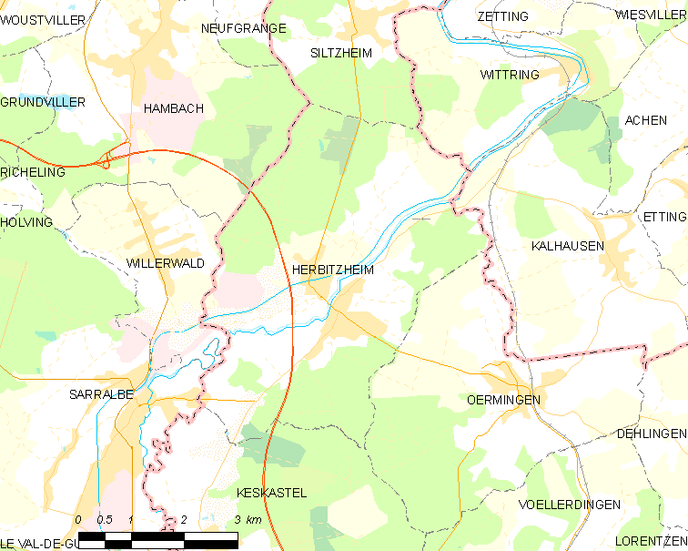 Map of French municipality